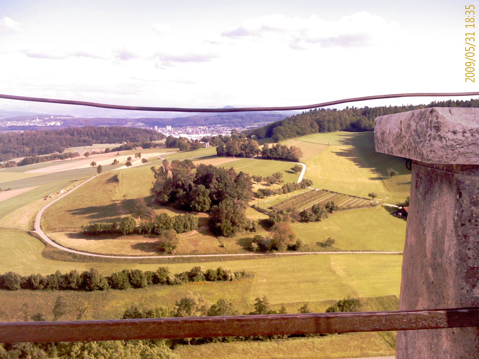 Panoramic view of Regensdorf seen from Regensberg, canton of Zürich, SwitzerlandEsperanto: Panorama vido de Regensdorf vidita ek de Regensberg, Kantono Zuriko, Svislando